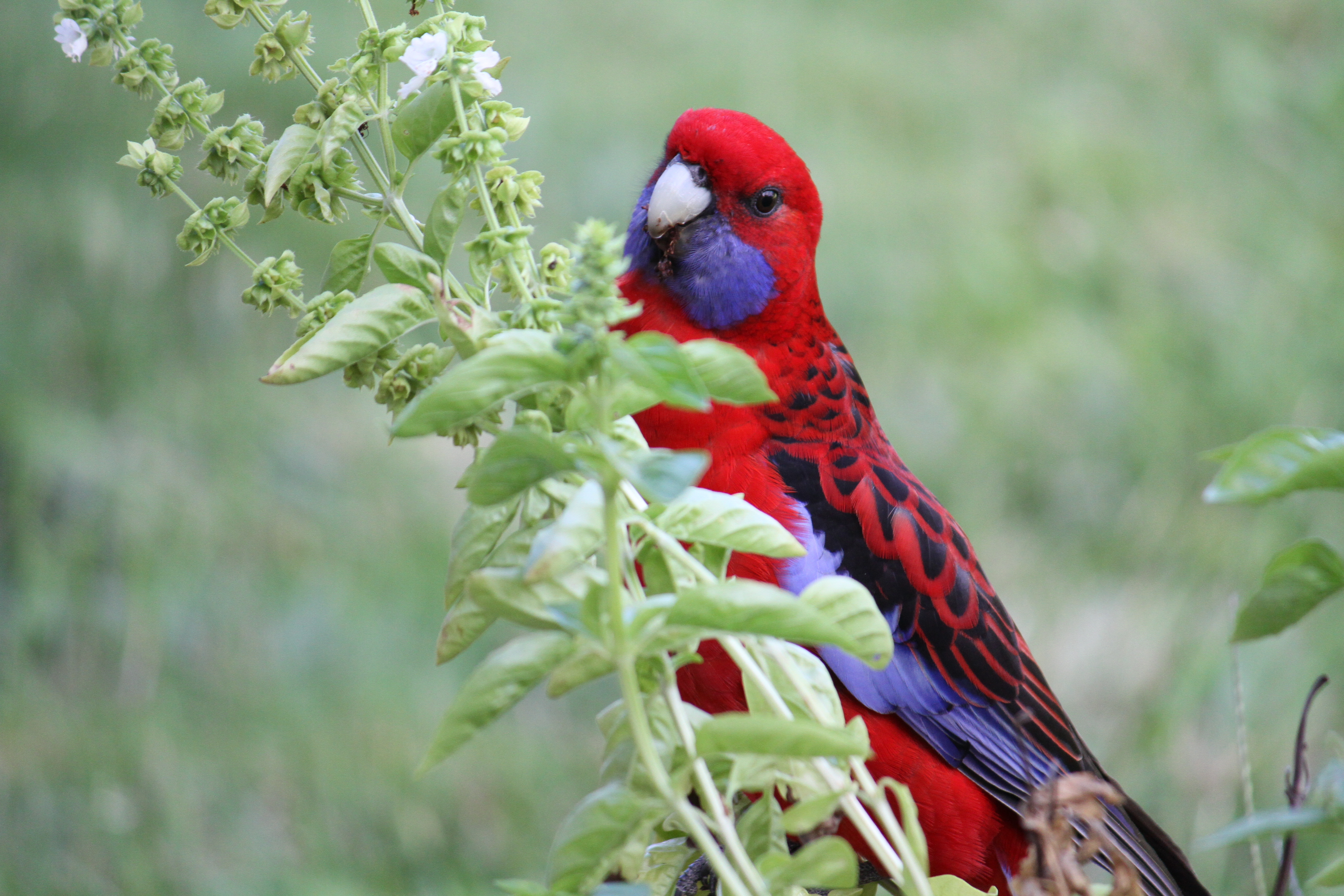 A Crimson Rosella eating seeds from a basil plant in a garden in Canberra, Australia.